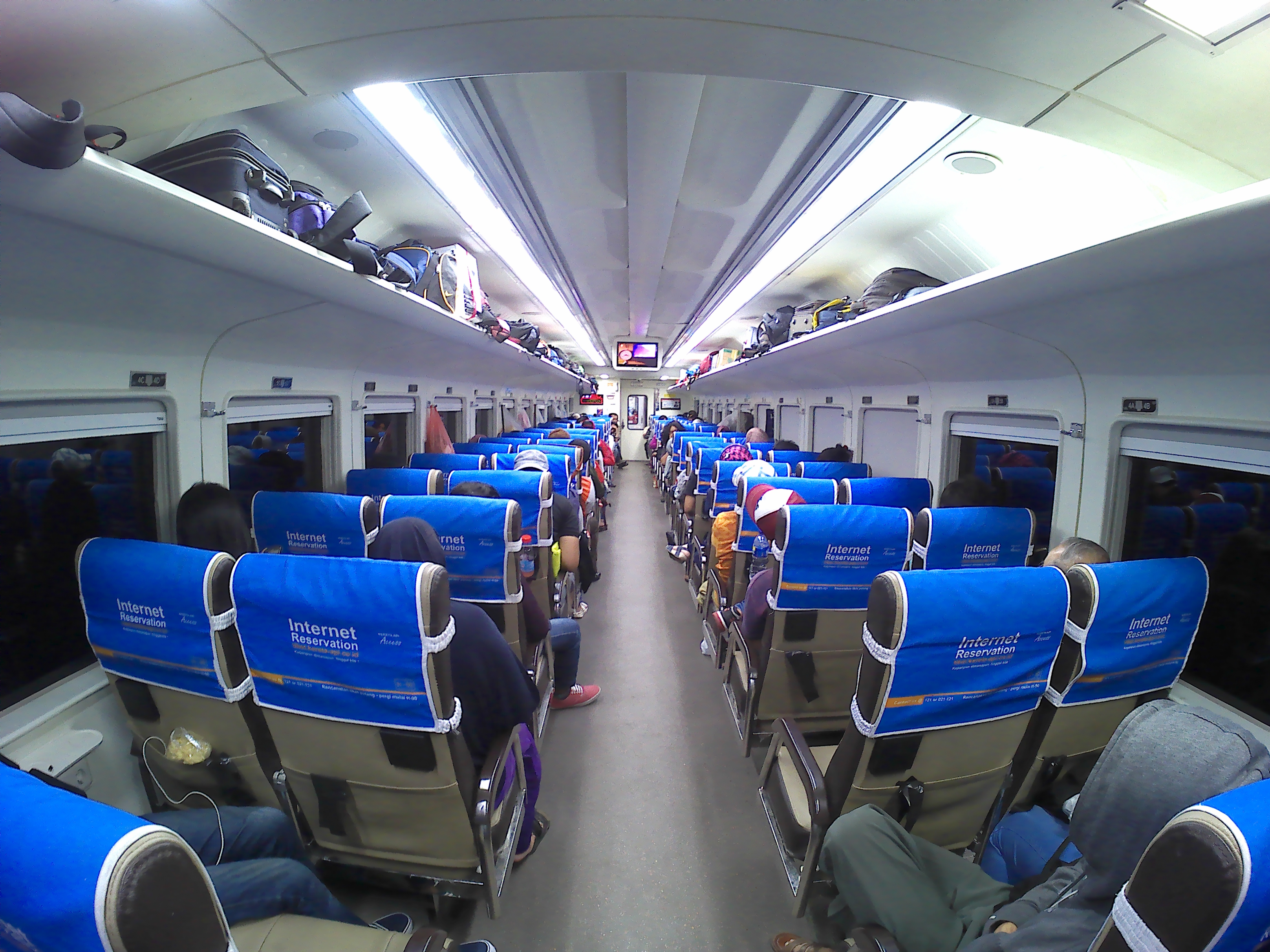 Economy class interior of Sancaka Express Train.